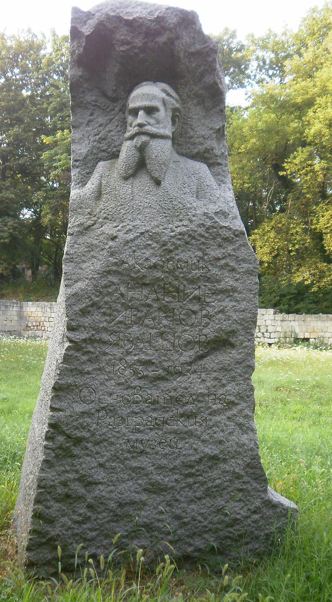 Bust of Anani Yavashov, Abrittus, Razgrad.